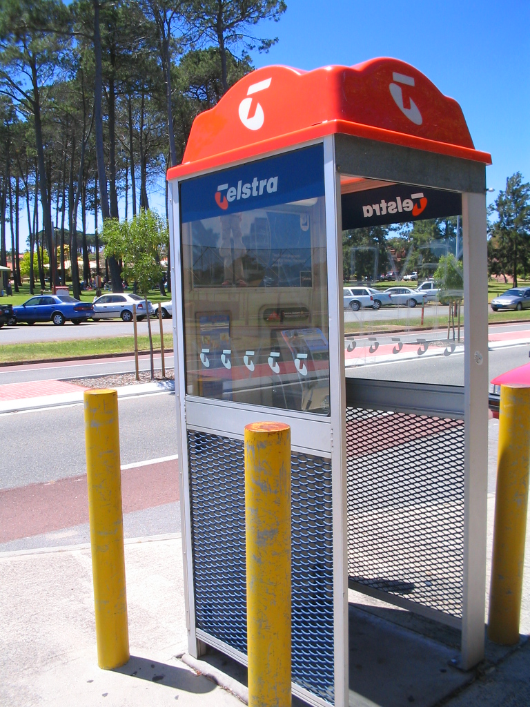 Photo taken by me.